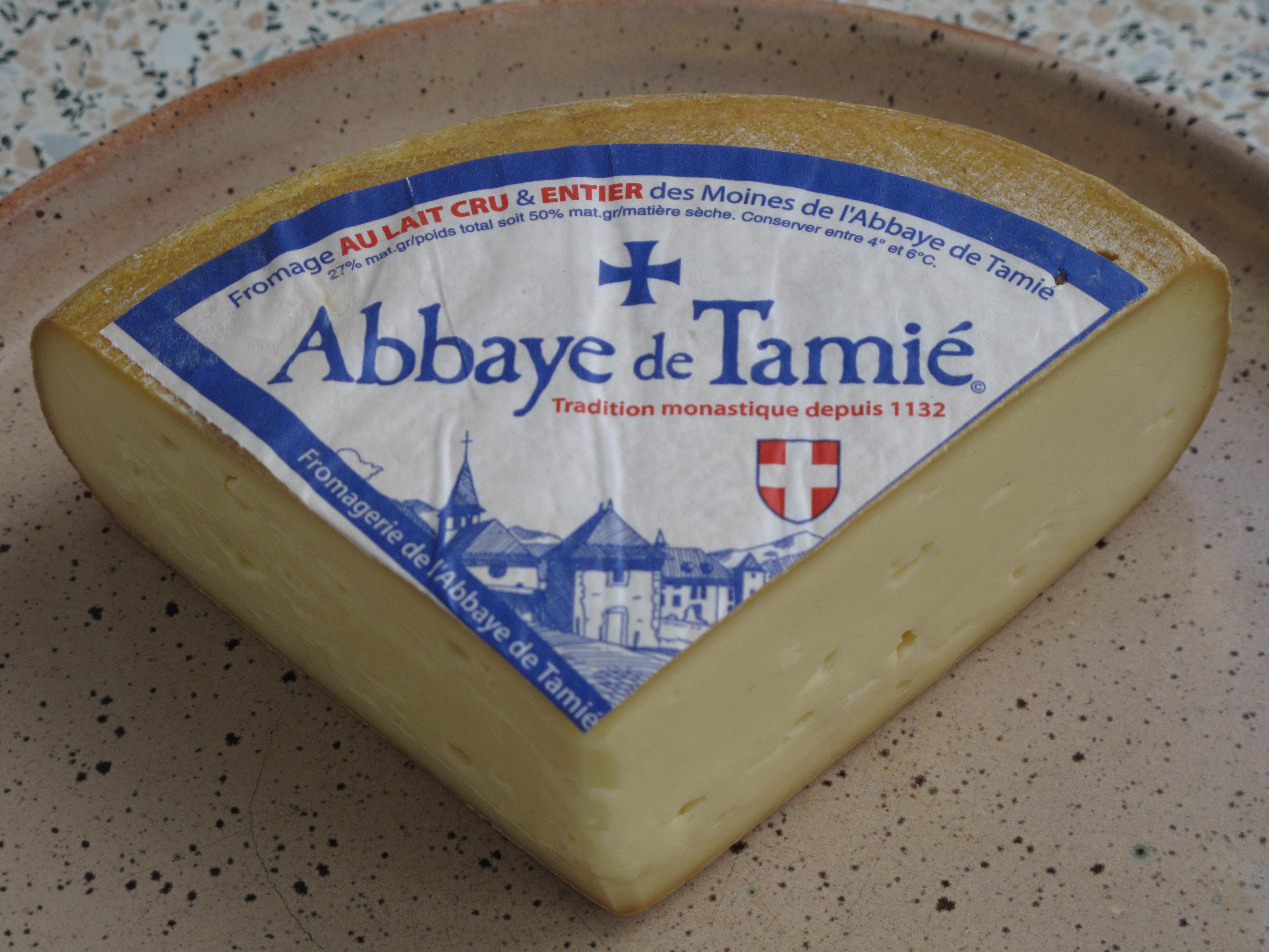 French traditional cheese made by the abbaye of Tamié in Savoie, France